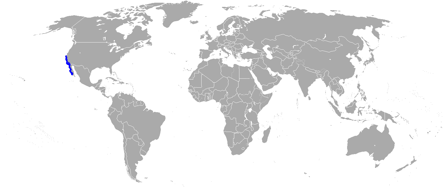 Distribution of the spotted turbot, pleuronichthys ritteri, using a blank map of the world showing 2008 borders. Based on File:BlankMap-World.png; as it is PD, this is too.